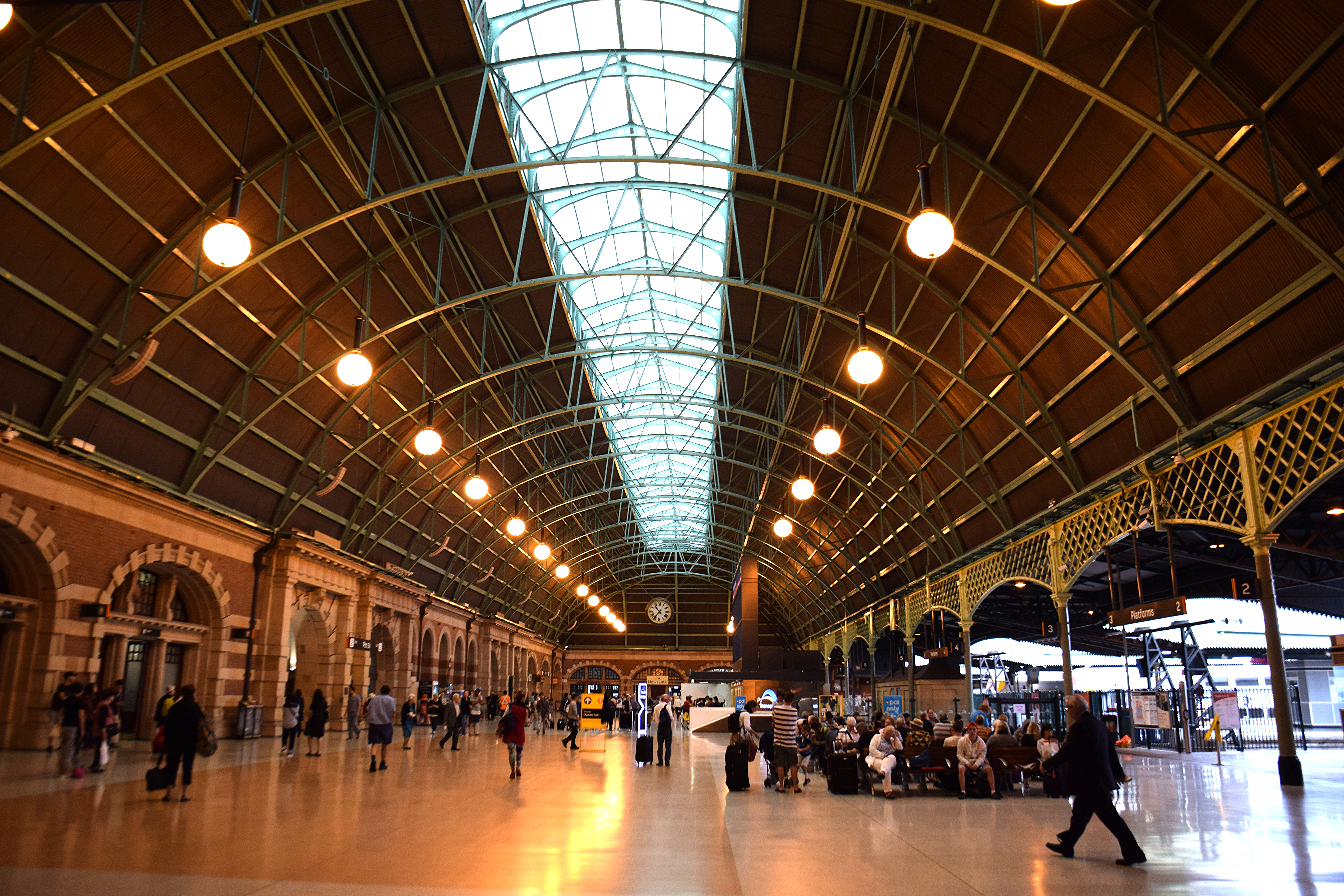 Sydney Central station, 28 March 2016. The station was opened in 1906 and is the largest station in Australia. It was built by the New South Wales Government Railway in the Federation Academic style. Its architect was Walter Liberty Vernon. Pictured is the concourse.